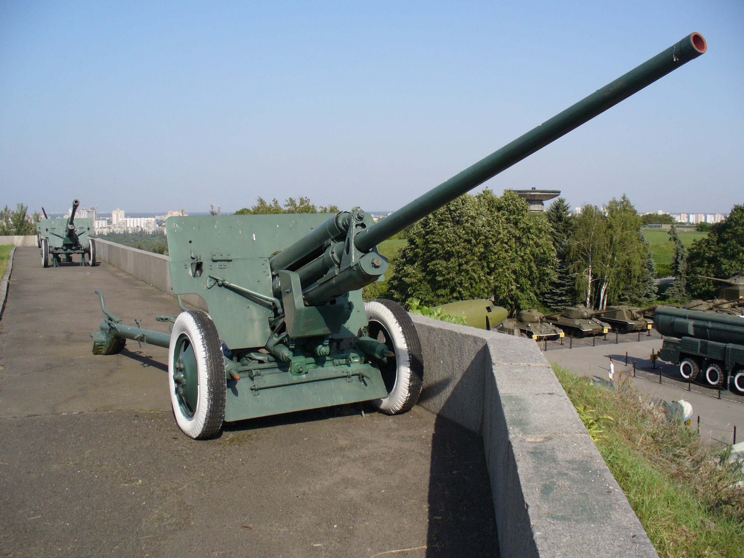 The ZiS-2 was a Soviet 57-mm anti-tank gun used during World War II. Ukraine, Kiev